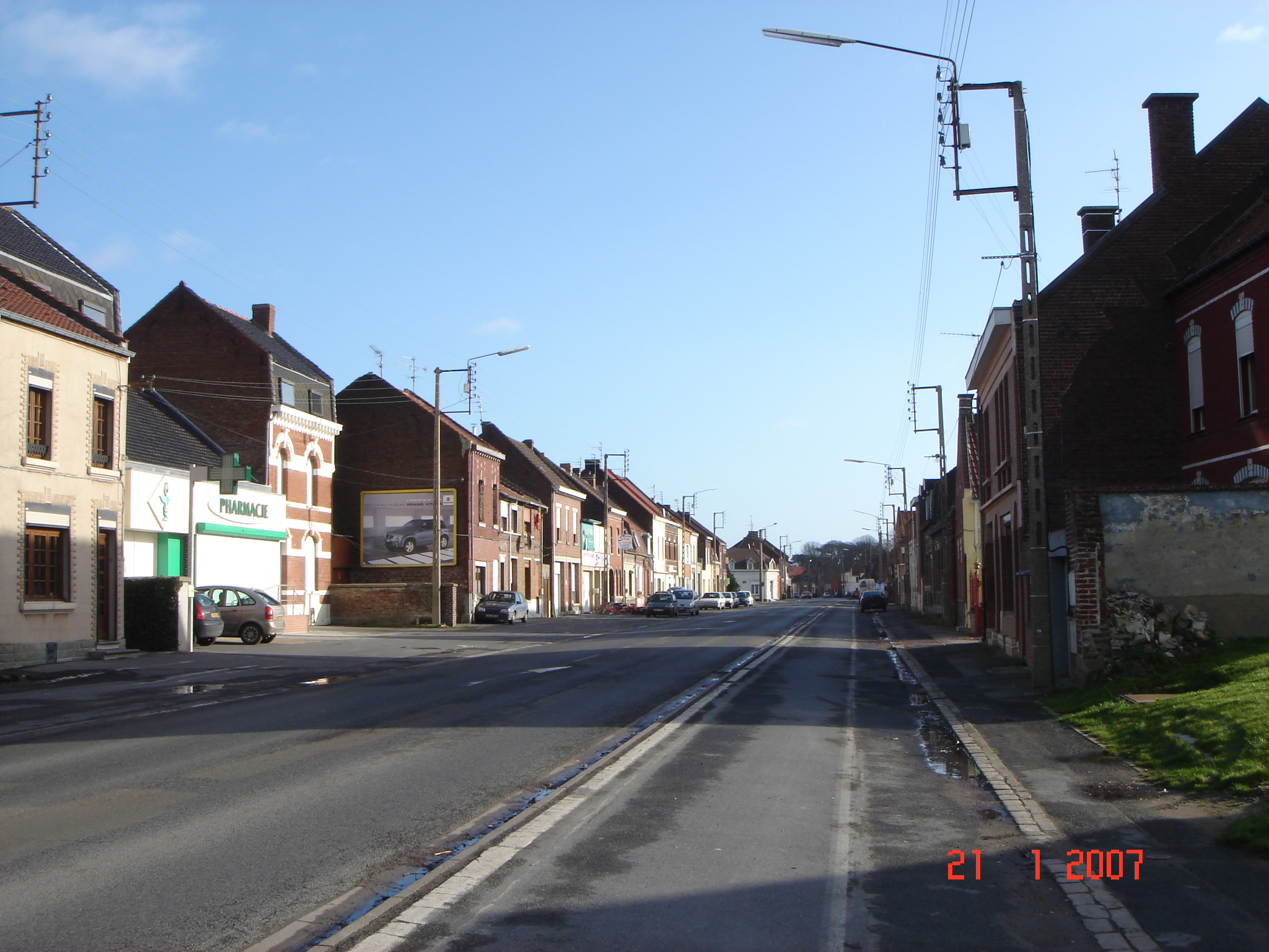 Auberchicourt RN45